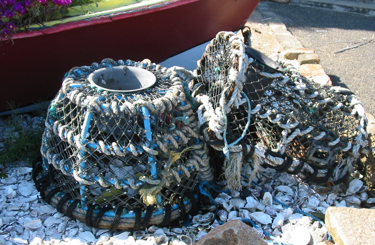 Jersey, 22 June 2009